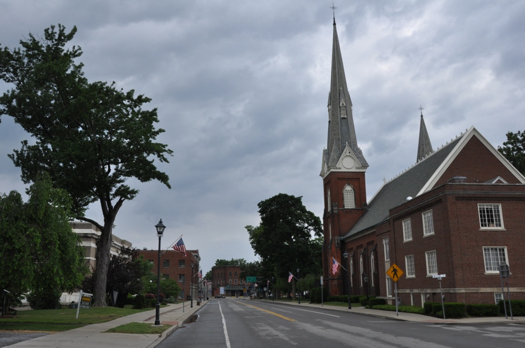 South Portage Road in Westfield, New York, part of the French Portage Road Historic District.